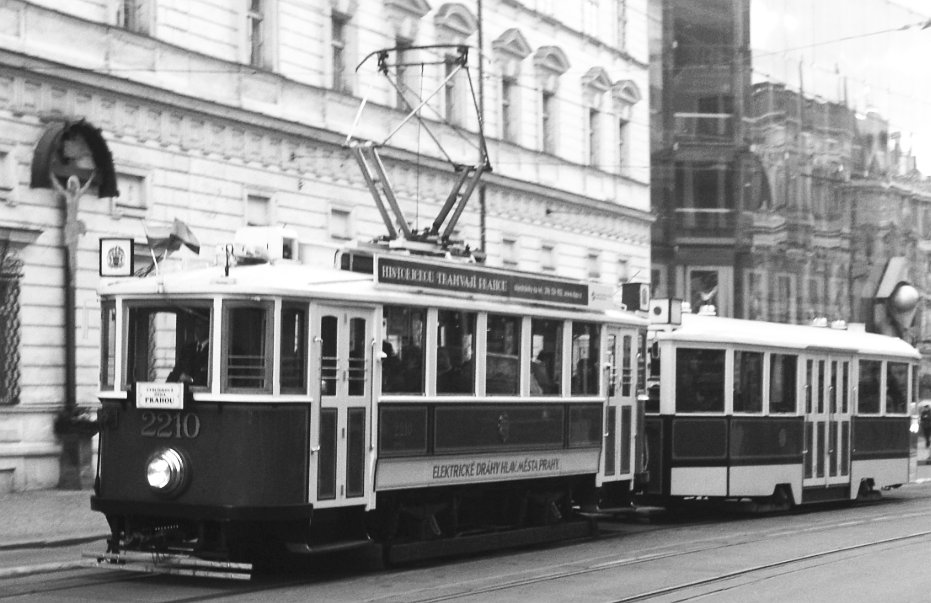 Historical tramway no. 2210 with a trailer in Prague